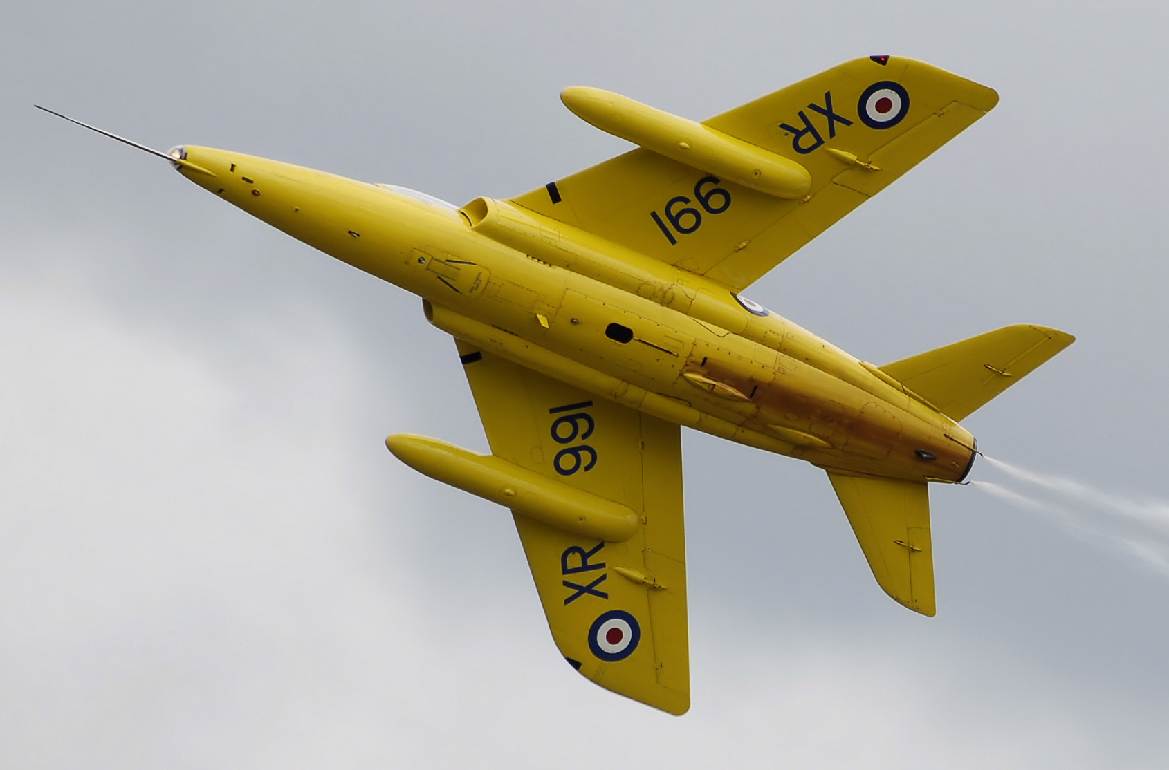 Folland Gnat T Mk1 (XS102 in RAF service, now called XR991/G-MOUR) during a display at Kemble Air Day on 15th June 2008 at Kemble Airport, Gloucestershire, England. Built 1964 for the RAF as XS102, put on the civil register in 1990. This aircraft, kept at Kemble, is painted in the colours of a former RAF display team who used Gnats - the Yellowjacks. The reason for the change of military serial is that XS102 never flew with the Yellowjacks, but XR991 did.